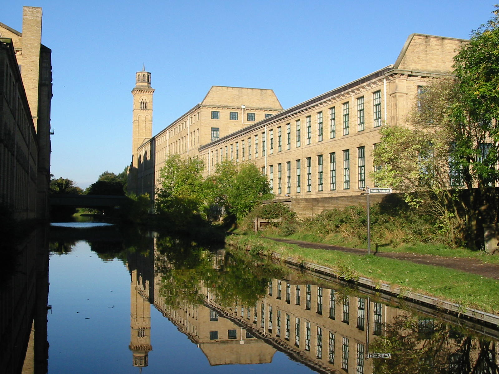 Titus Salt's mill in Saltaire, Bradford is an UNESCO World Heritage Site. Leeds to Liverpool Canal, Saltaire. Mill buildings built by Sir Titus Salt. Saltaire mills from the Leeds and Liverpool Canal. Salts Mill (left) and the New Mill (right) from the Leeds and Liverpool Canal.